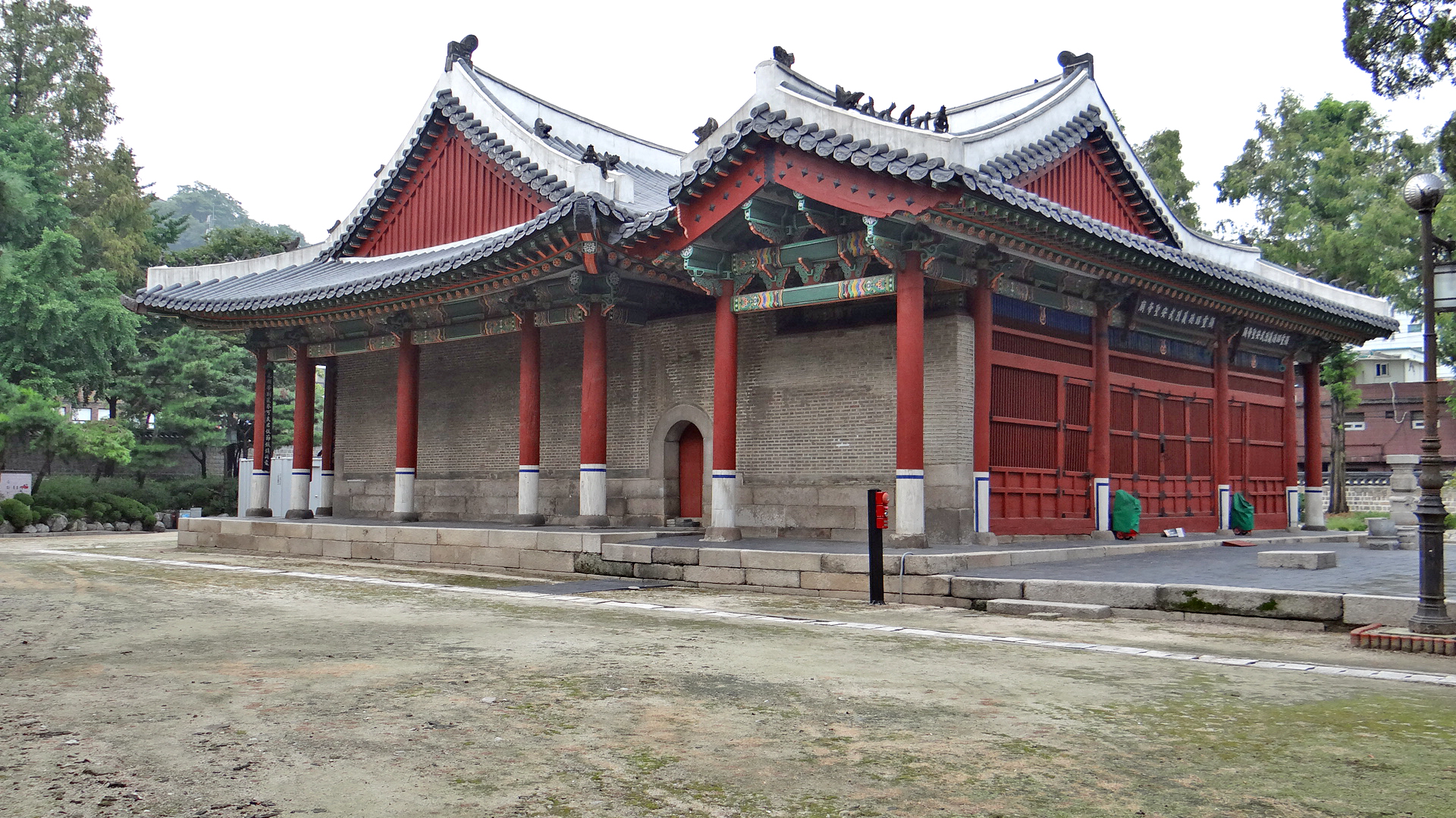 Donggwanwangmyo, or Dongmyo Shrine, built in 1601 in Seoul, is an ancestral shrine where ancestral sacrifices to the Chinese commander Guan Yu (162-219) were performed.